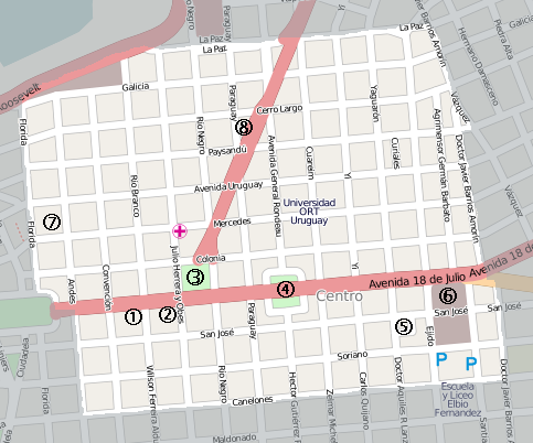 Map of Centro, Montevideo, Urugay, with added numbers for notable sights. Edificio Lapido (Palacio de la Tribuna Popular) Palacio Brazil Plaza Fabini: Edificio Rex y Sala Zitarrosa, Edificio London Paris, Subte Municipal Plaza Cagancha: Edificio Libertad, Palacio Piria, Palacio Montero, Museo Pedagógico, Ateneo de Montevideo, Mercado de los Artesanos, Palacio Chiarino Mercado de la Abundancia (Restaurants and shows) Palacio Municipal (City Hall): Michaelangelo's David (replica), Museo de Historia del Arte, Photographic Archive of Montevideo SODRE (Symphonic Orchestra, Ballet) ANCAP Building This map may be incomplete, and may contain errors. Don't rely solely on it for navigation.